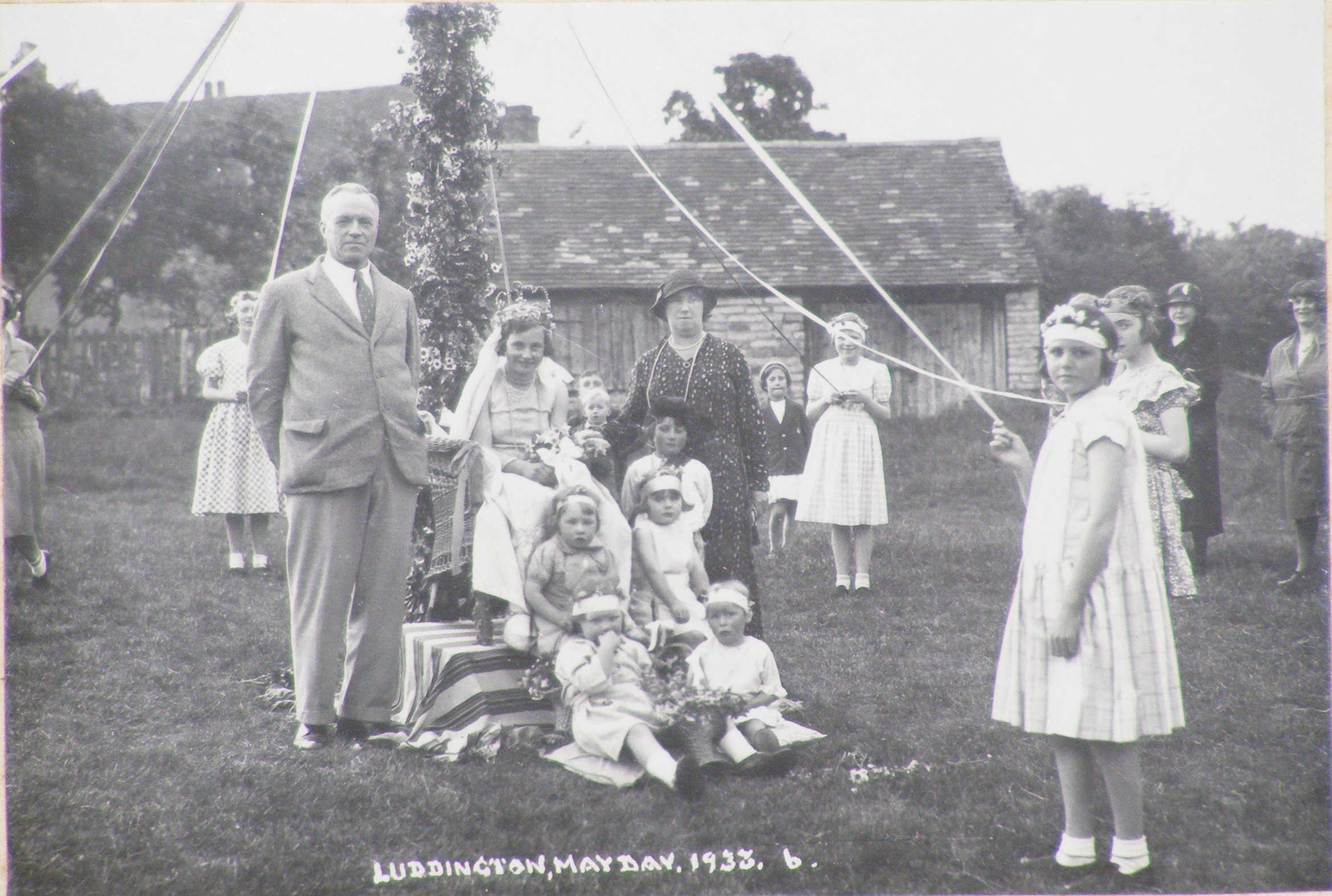 Luddington May Day 1933, on the Village Green. The former blacksmith's shop is in the nearer background.